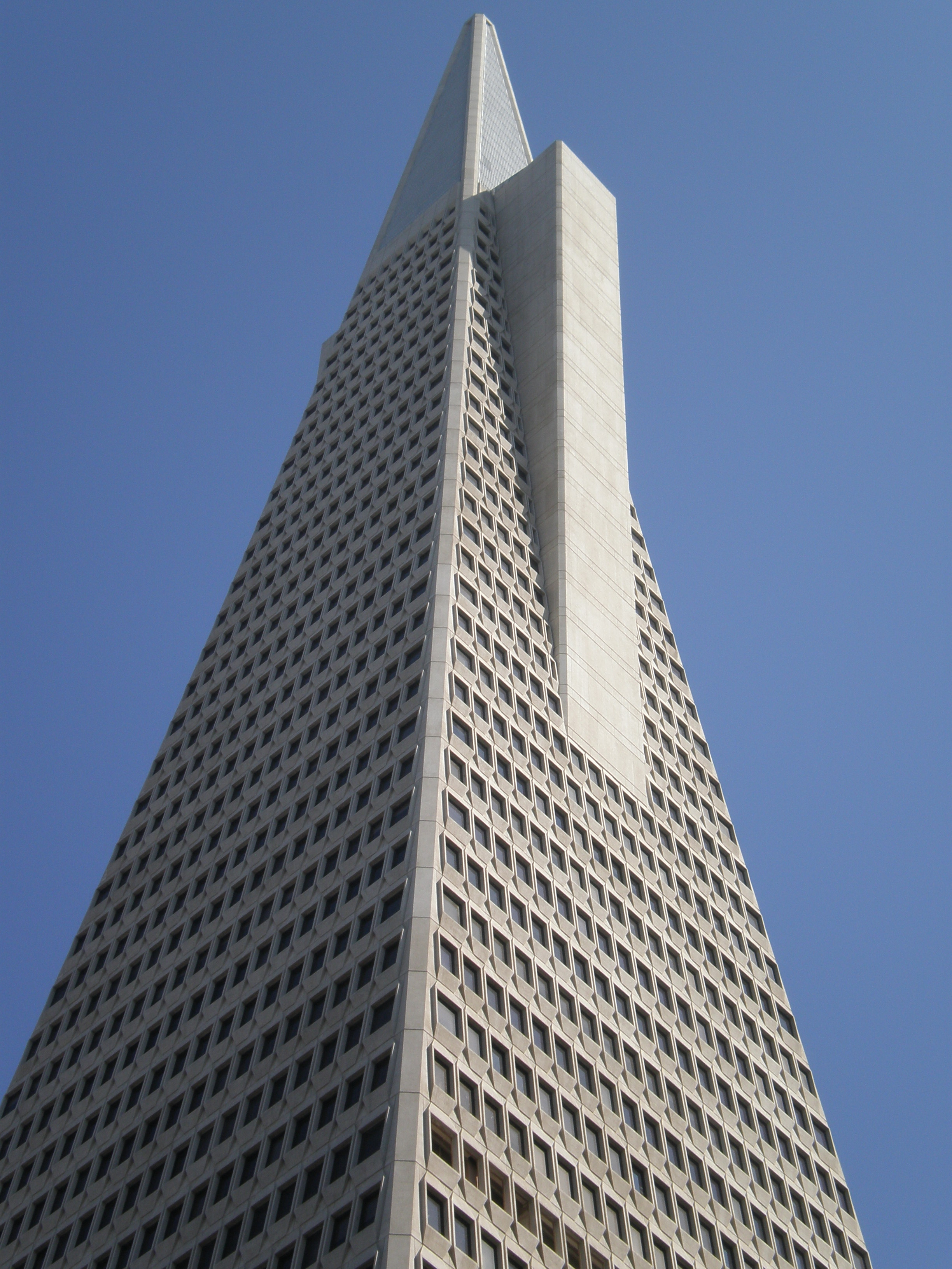 The Transamerica Pyramid in San Francisco as seen from the street.